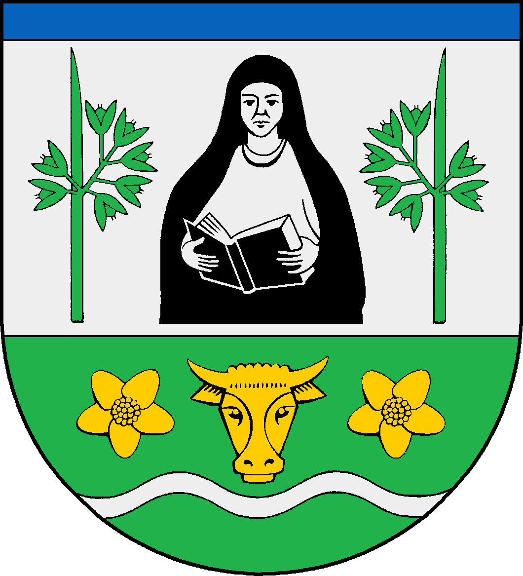 Coat of arms of the municipality Aebtissinwisch in Schleswig-Holstein, Germany.